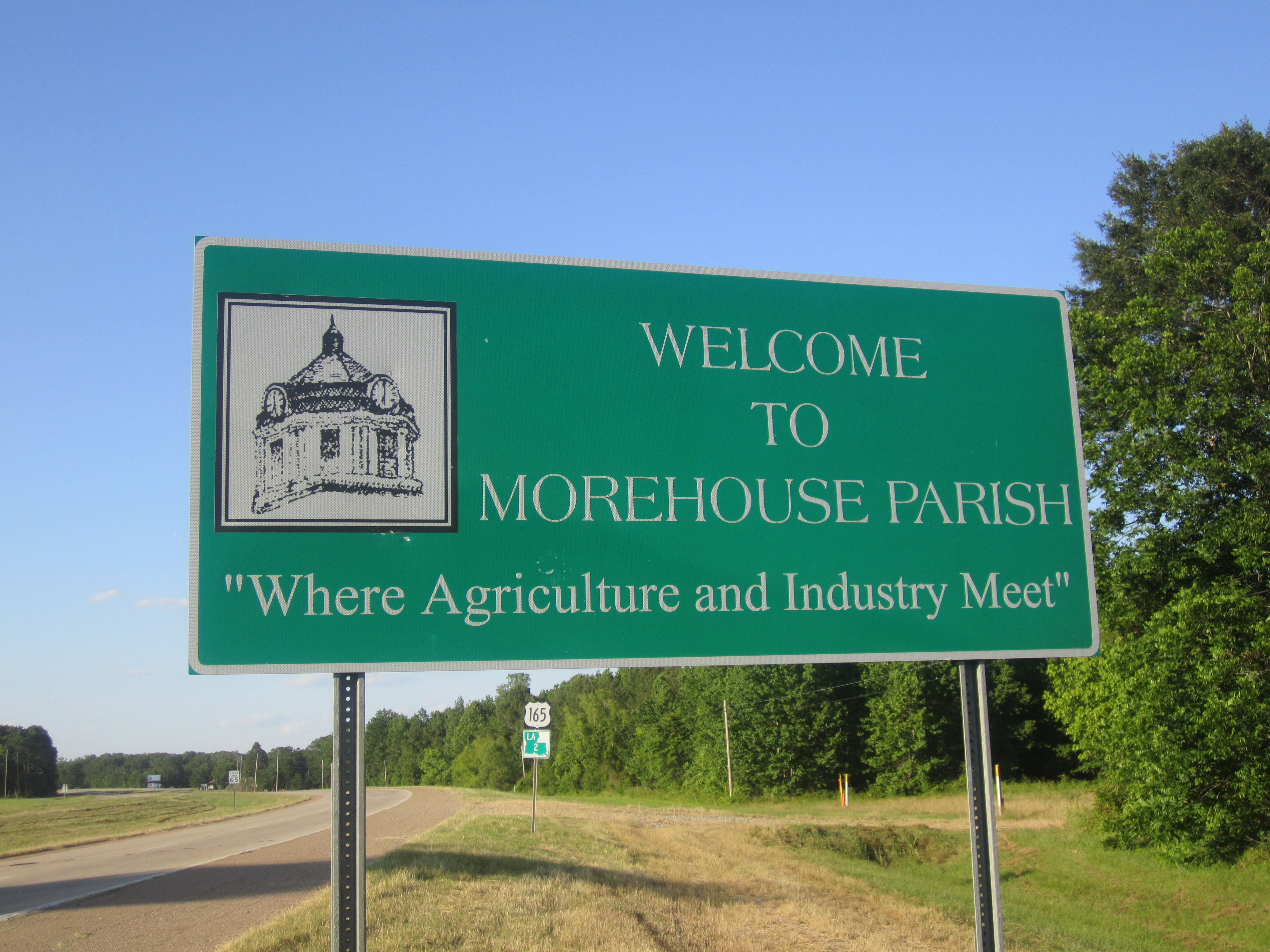 I took photo with Canon camera in Morehouse Parish, LA.